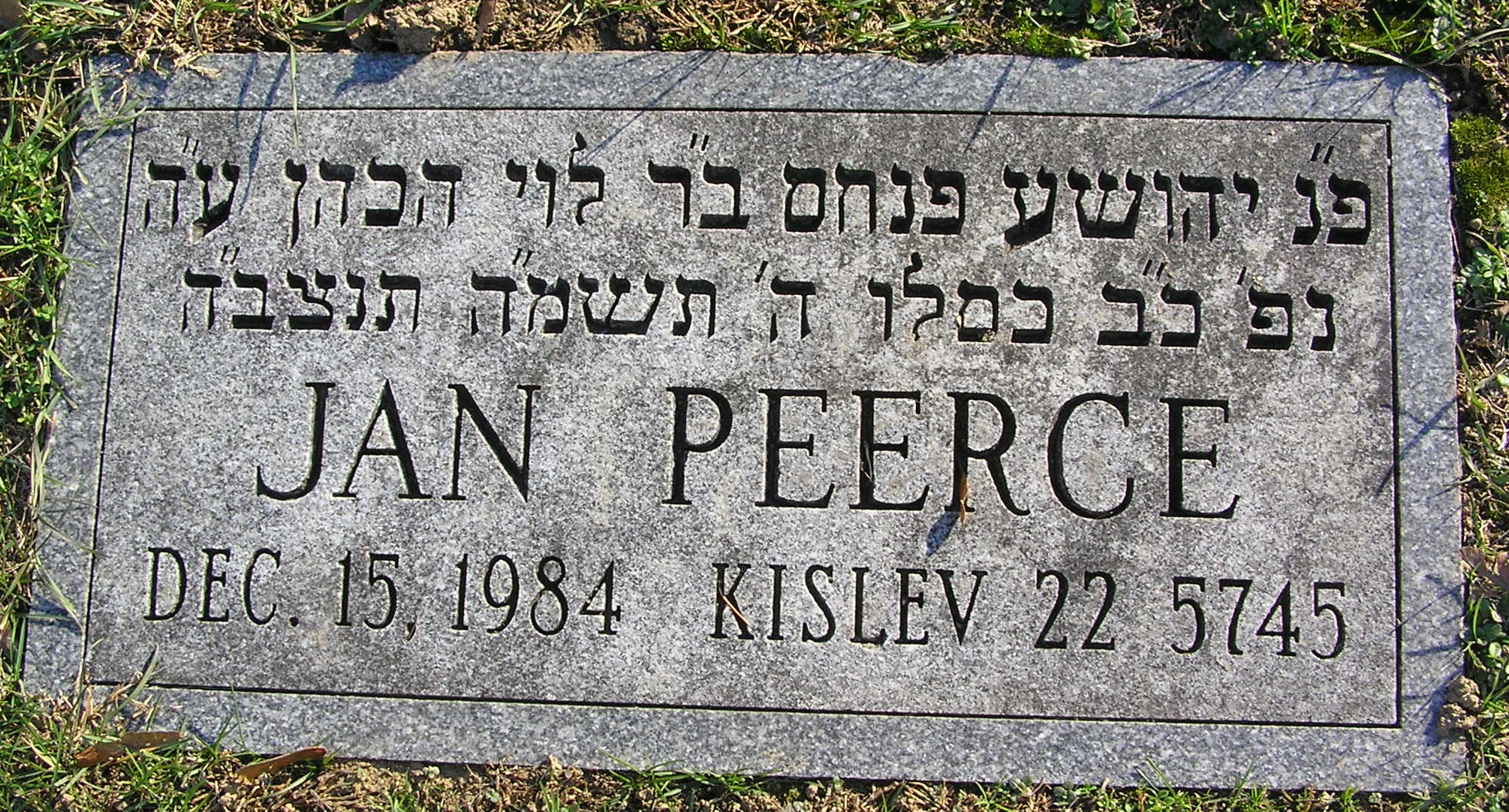 The footstone of Jan Peerce in Mount Eden Cemetery